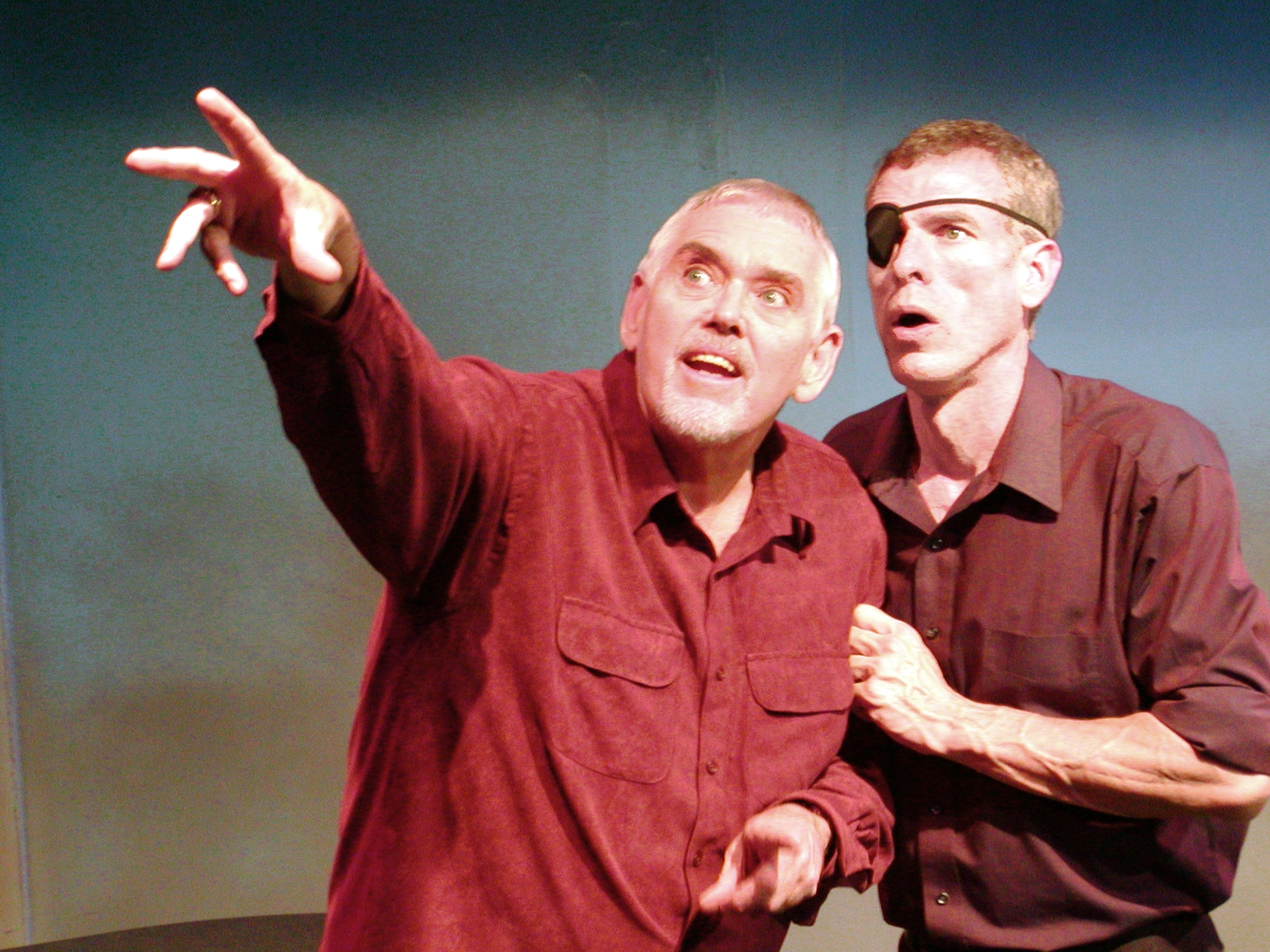 Jim Brochu and Steve Schalchlin. Opening night of "The Big Voice: God or Merman." The story of how God and Ethel Merman affect the life of two men.